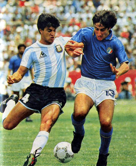 Claudo Borghi being marked by Fernando De Napoli at the FIFA WC.